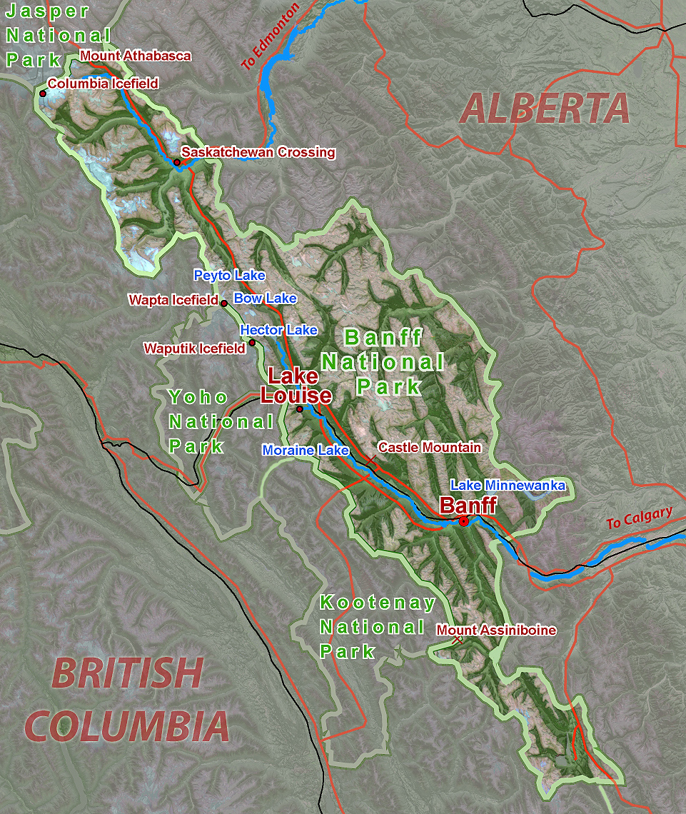 Map of Banff National Park, Alberta, Canada